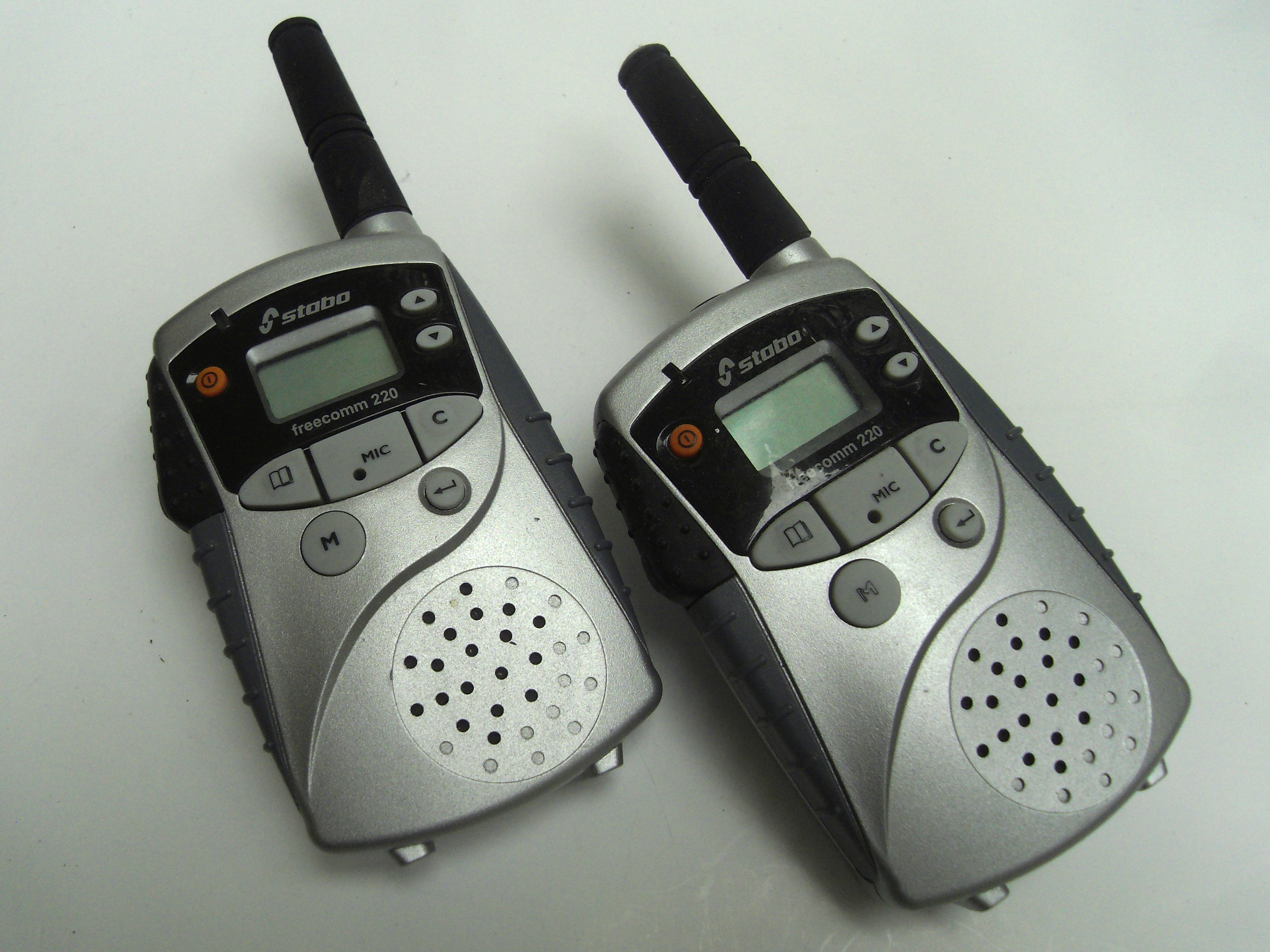 Walkie Talkies, Stabo freecomm 220